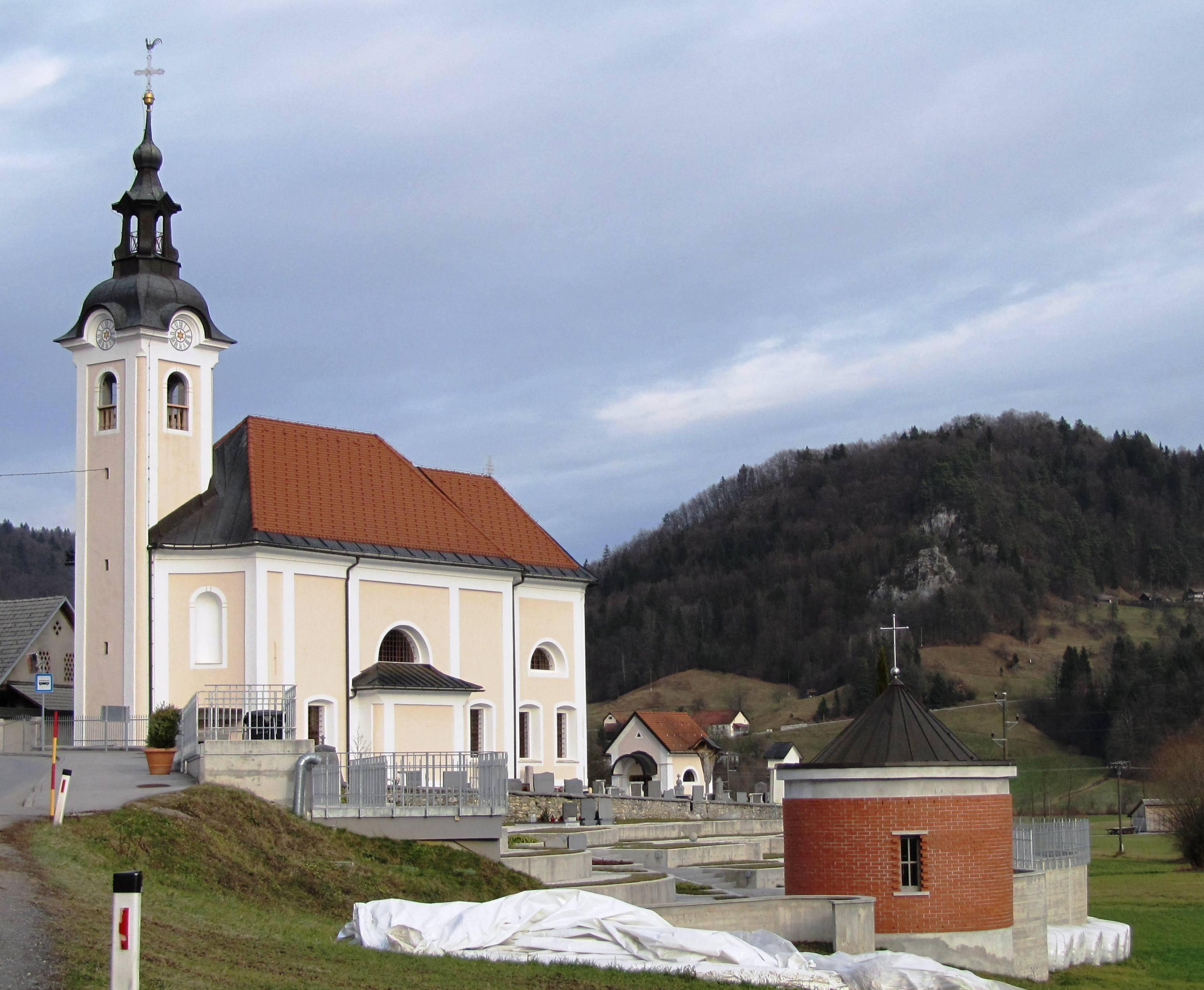 The Church of St. Nicholas in Dvor pri Polhovem Gradcu, Municipality of Dobrova–Polhov Gradec, Slovenia